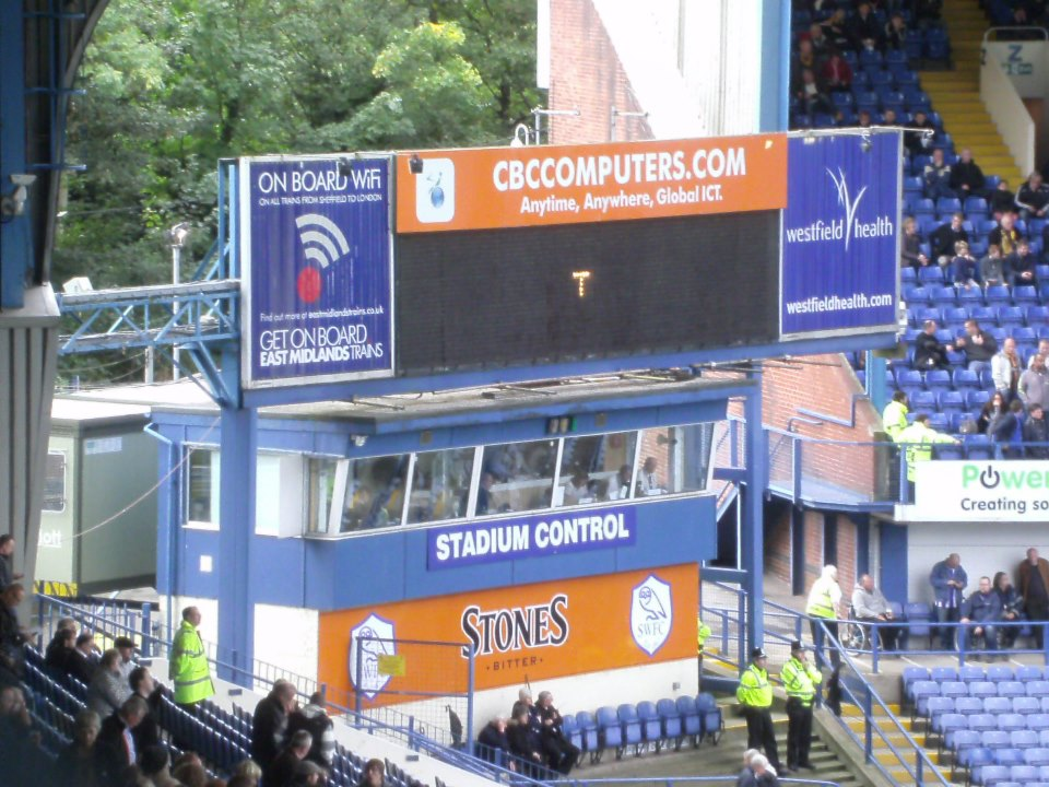 The famous scoreboard at Hillsborough Stadium prior to the kick-off of the 2012-13 Football League Championship game between Sheffield Wednesday and Hull City on 6 October 2012. Here it is exhibiting it's famous "T" which is shown between animations on the scoreboard due to a fault. The "T", and the scoreboard's retroness as a whole, has turned it into something of a cult icon amongst Wednesday supporters and a famous symbol of Hillsborough Stadium.